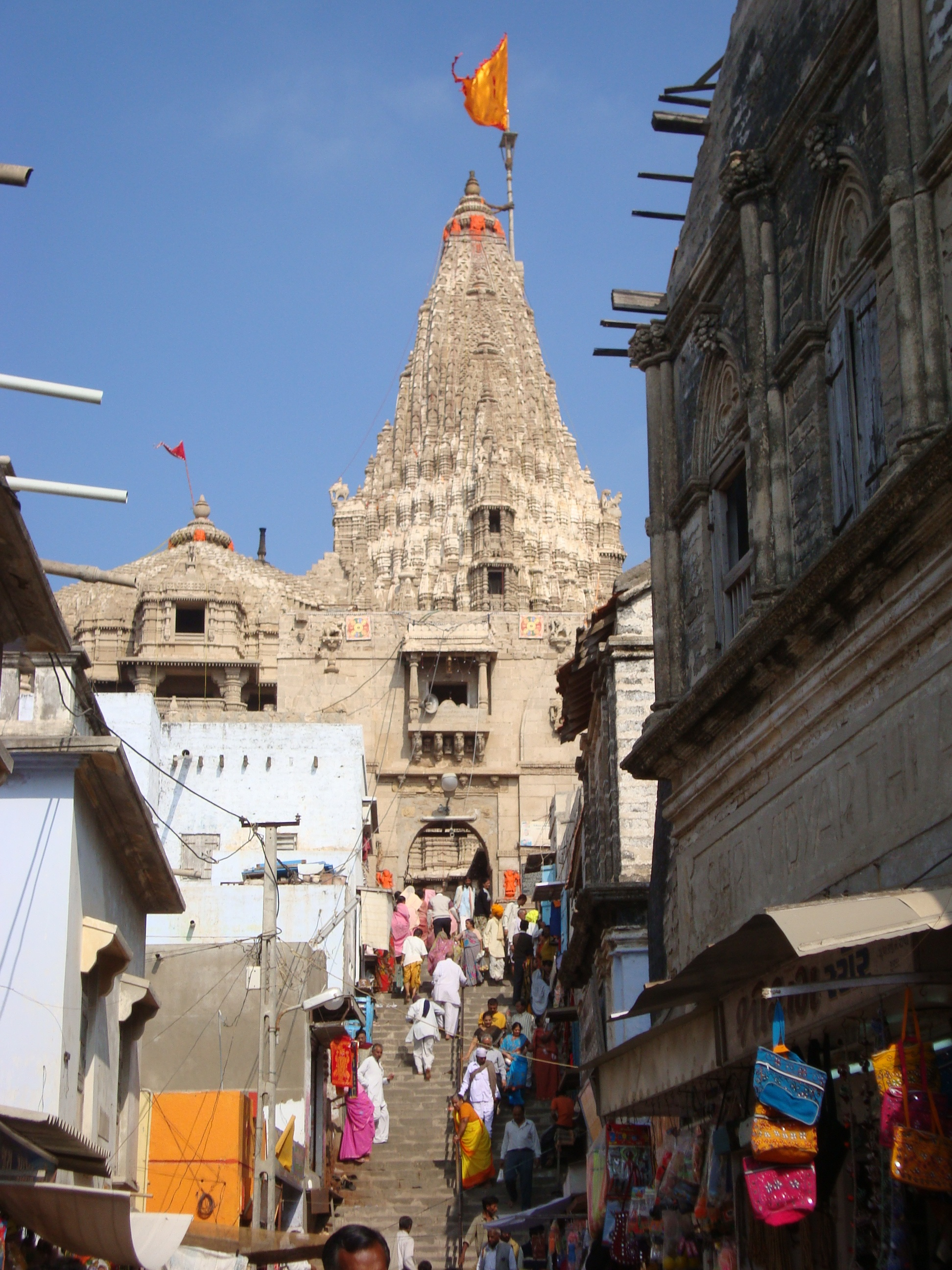 Dwarakadheesh temple, Dwaraka.